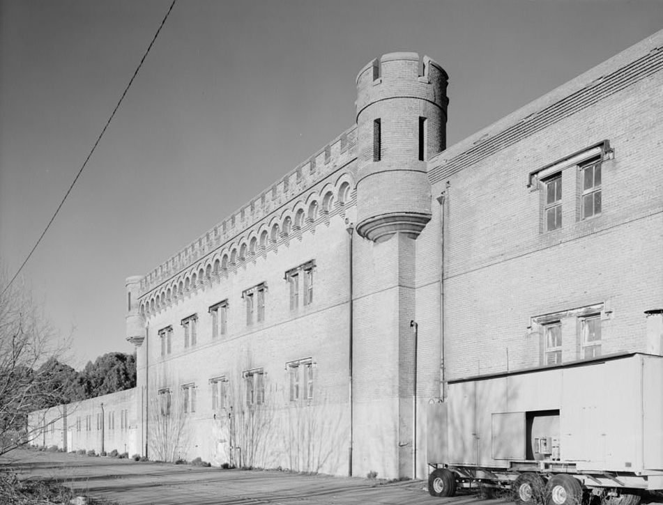 View of Building 1 (storage cellar), facing north -- Winehaven, Point Molate, Richmond, California, USA